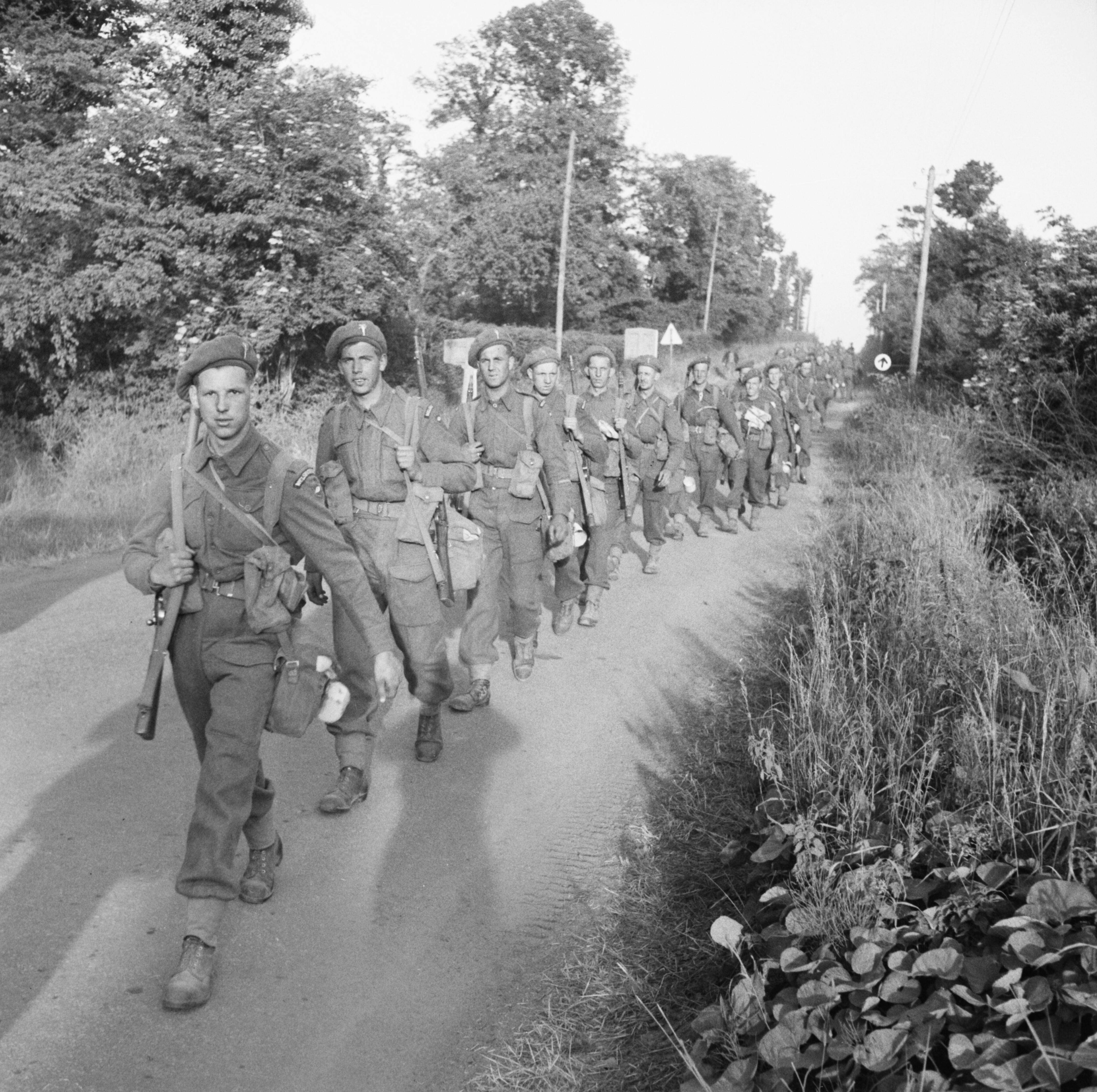 The British Army in the Normandy Campaign 1944 5th Battalion Welsh Guards, Guards Armoured Division, moving up to the front line, 17 June 1944.